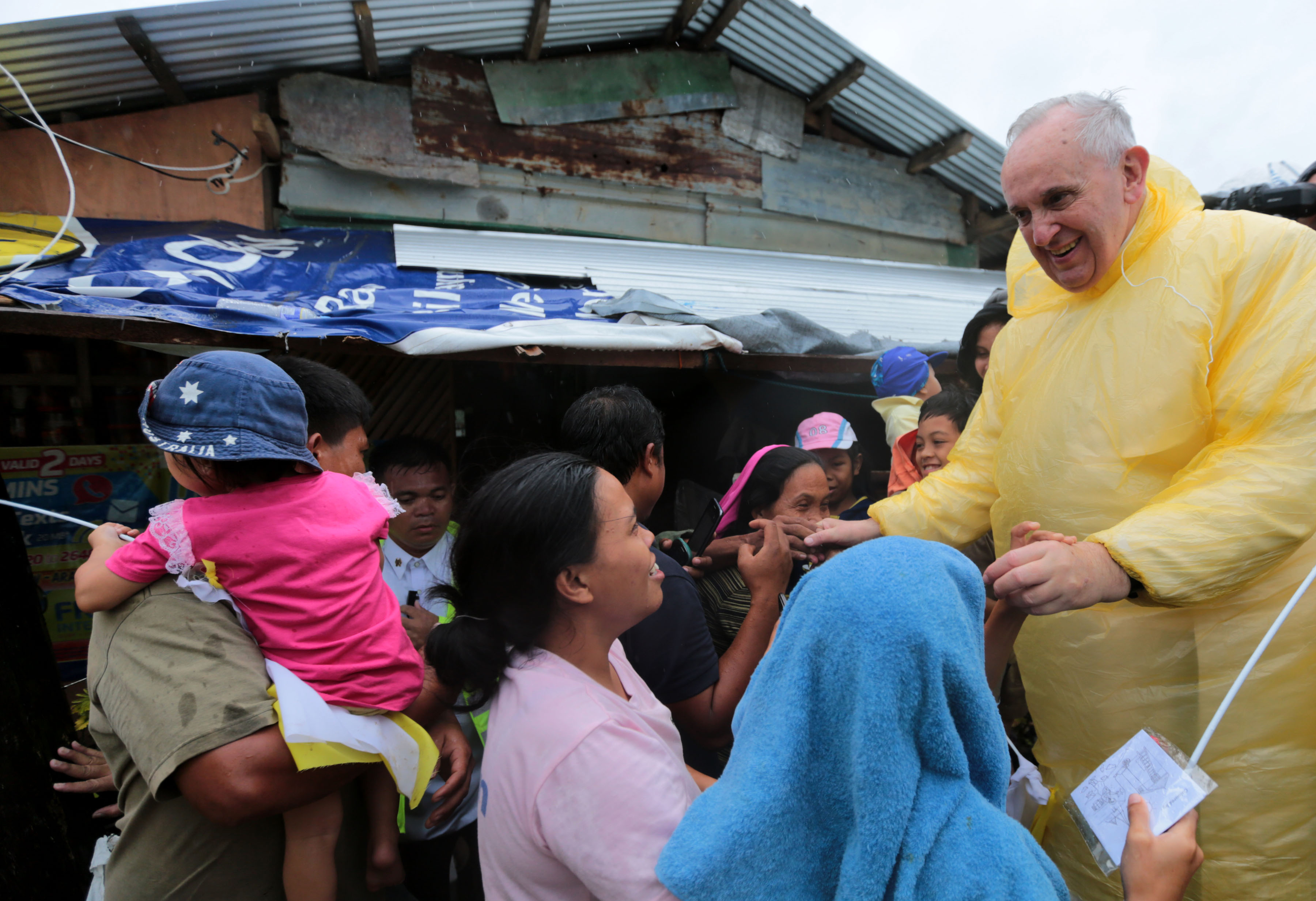 Pope Francis visits the Typhoon Yolanda victims in one of the areas in Palo, Leyte earlier today, January 17, 2015.